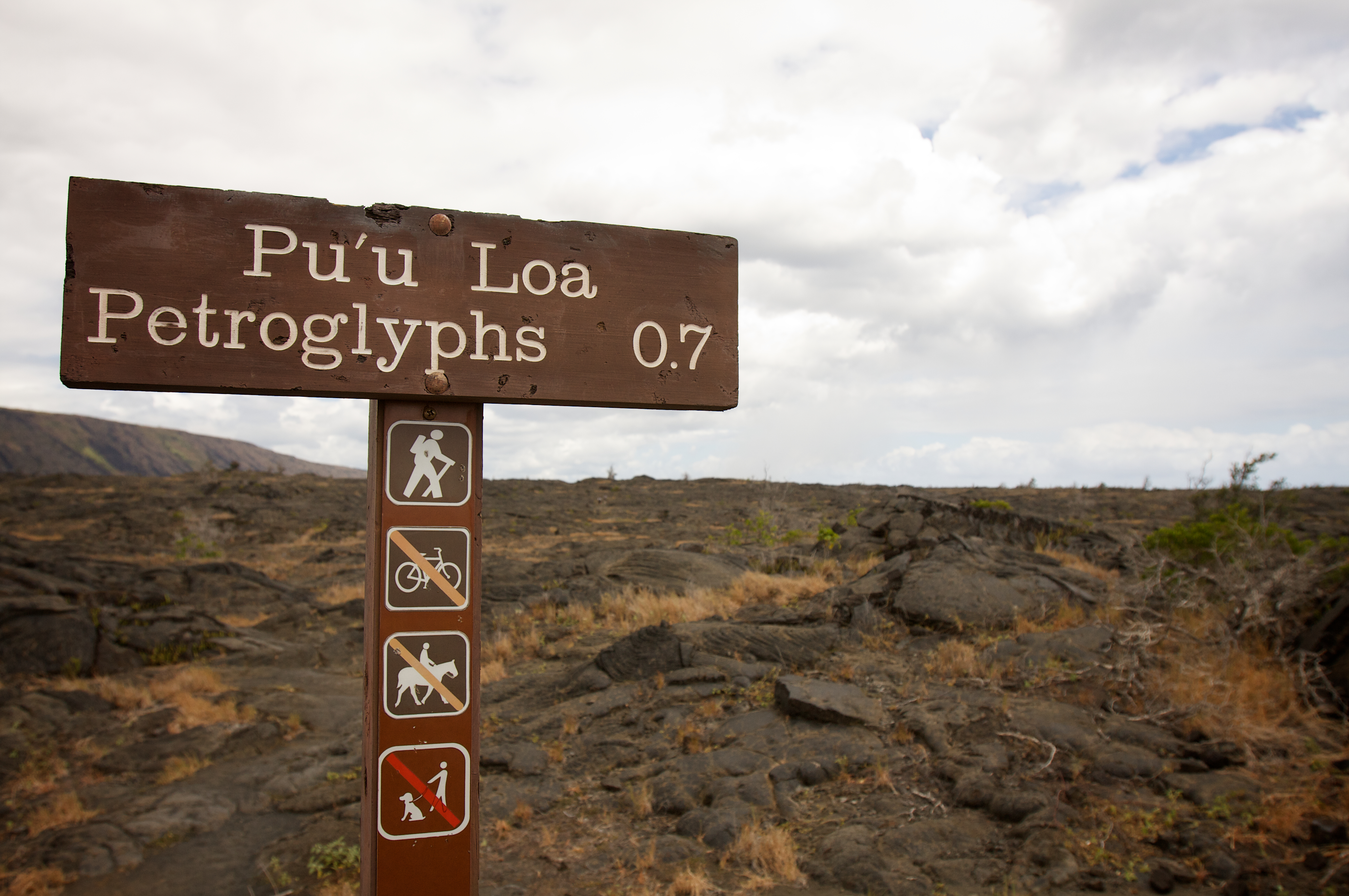 Puʻu Loa Petroglyphs, Hawaii, United States